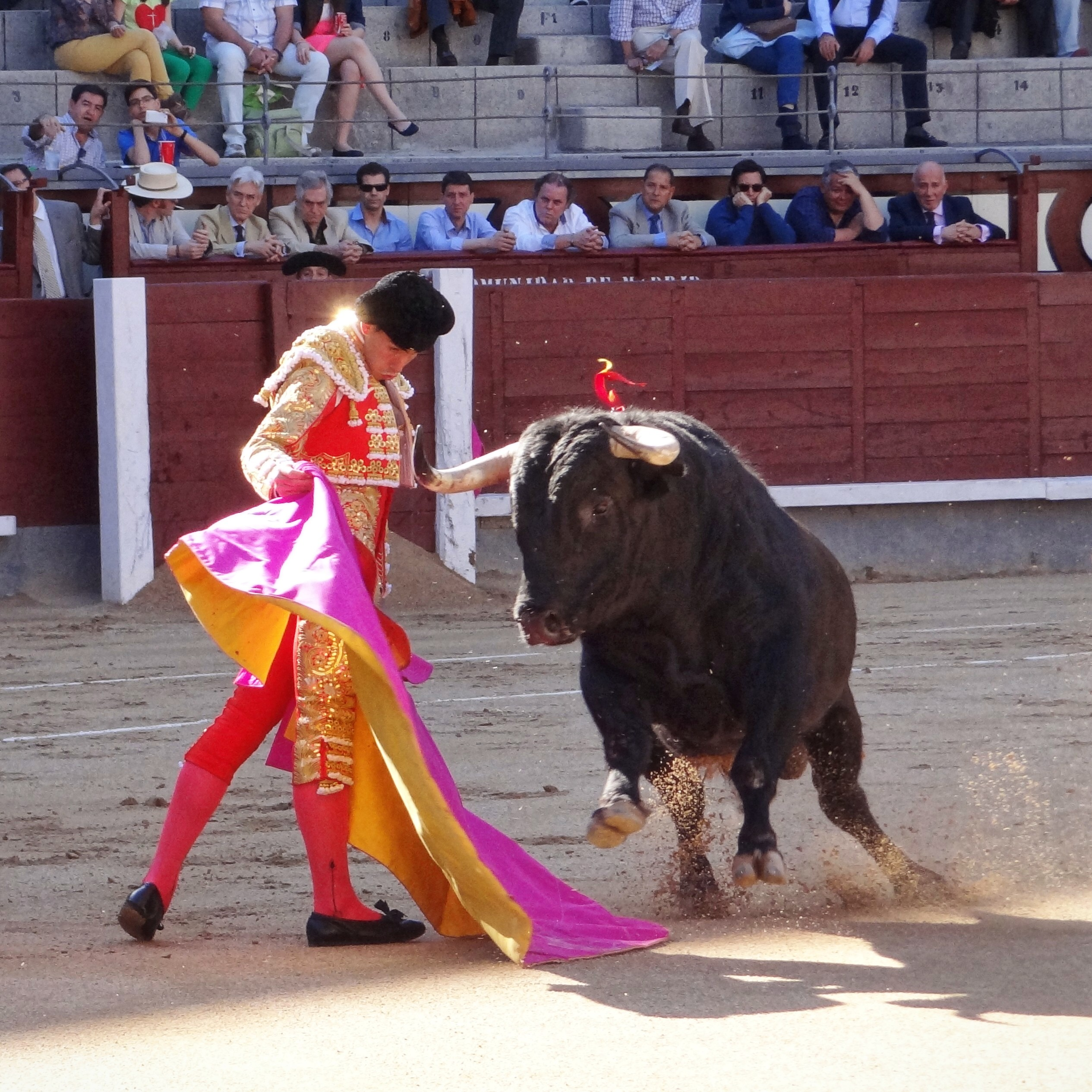 Bullfighting, tercio de varas: Toreando.